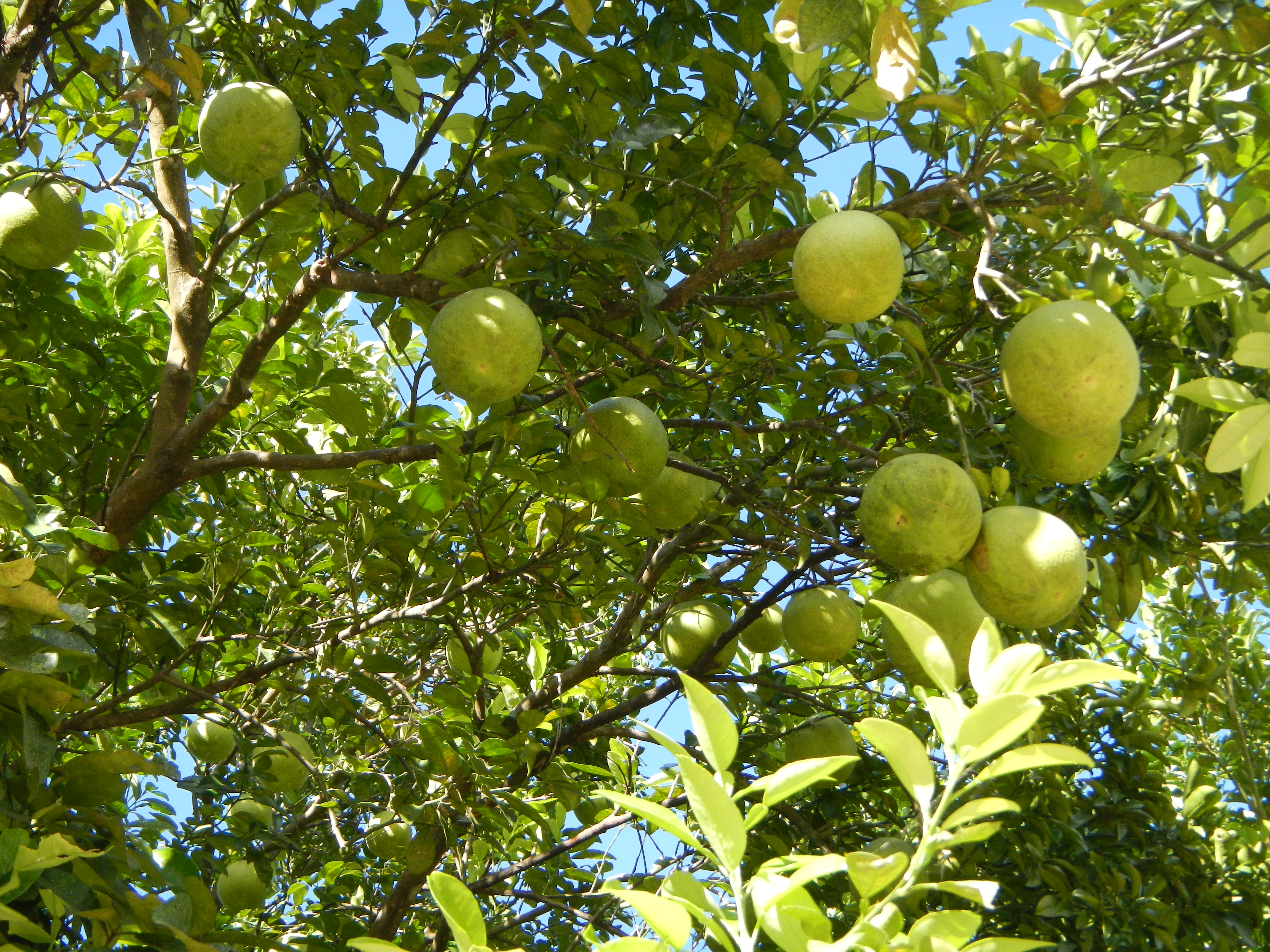 Barangay Matictic, Norzagaray, Bulacan (accessed from Welcome Arch connected by the Amador C. Dela Merced Bridge or Matictic Bridge and underneath is scenic Bakas, Matictic, Norzagaray, Bulacan - landmarks are the Barangay Hall, Chapel and) scenery of mountains and villages - featuring the Pomelos on trees, Citrus maxima. Lukban (Philippines) Pomelos.